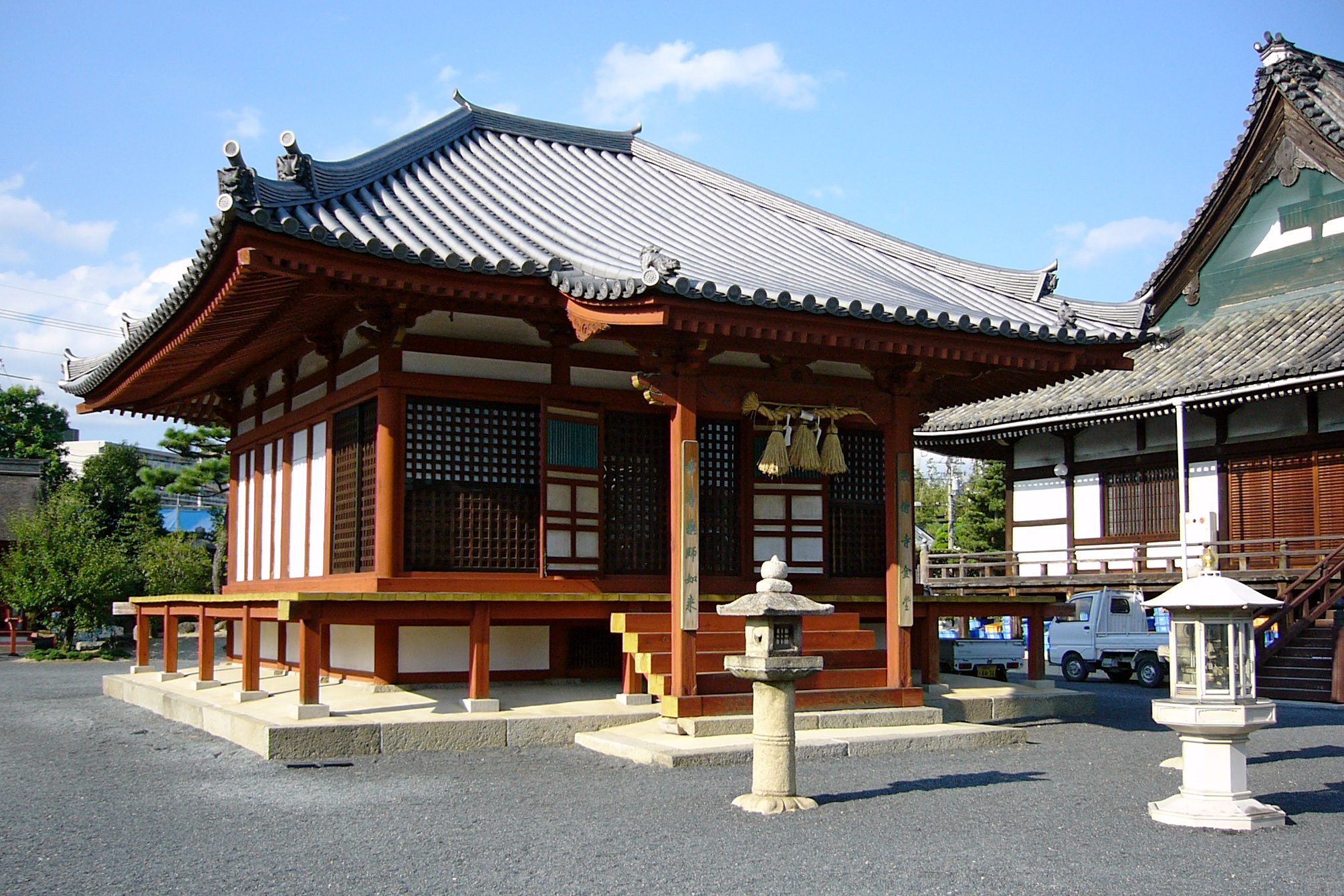 Sojiji in Ibaraki City, Osaka prefecture, Japan